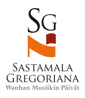 Logo of Sastamala Gregoriana, a Finnish festival of medieval music